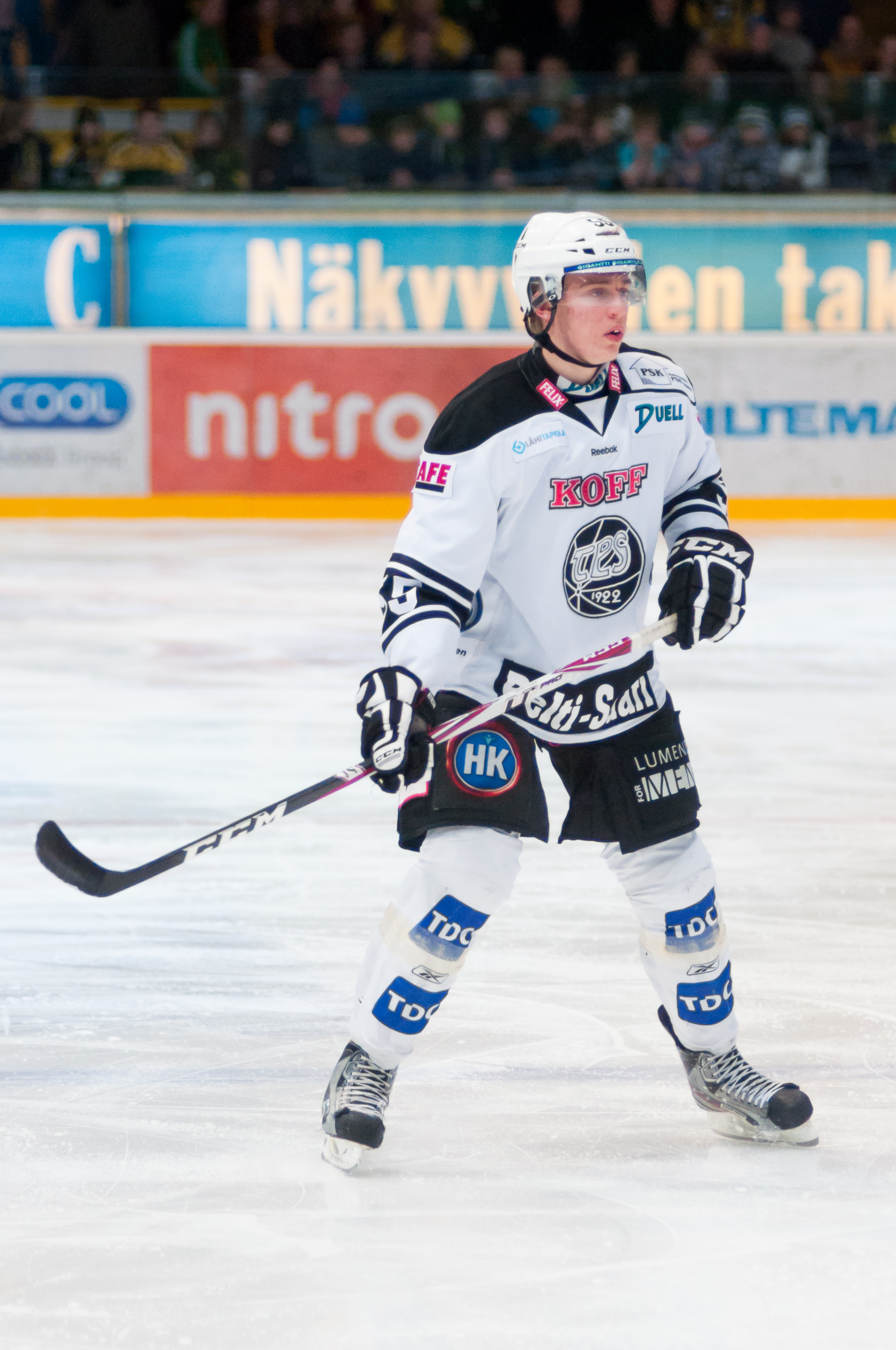 Finnish ice hockey defenseman Rasmus Ristolainen playing for Turun Palloseura (TPS) against SaiPa Lappeenranta in Lappeenranta, Finland.